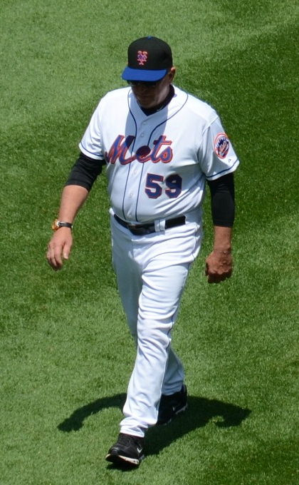 Dan Warthen